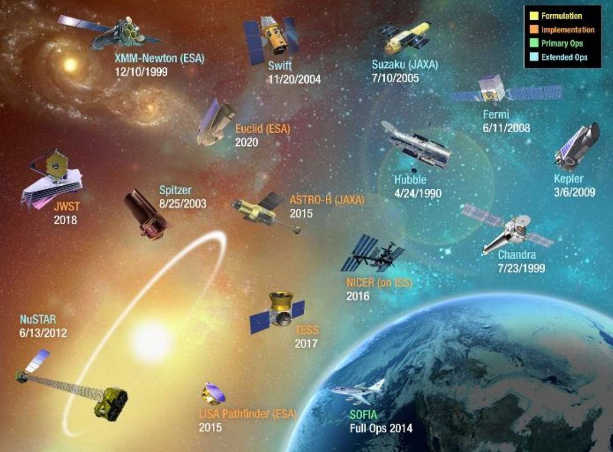 NASA Astrophysics science missions feb 2015